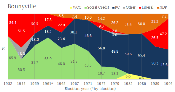 Graph of election results in Alberta electoral district of Bonnyville.